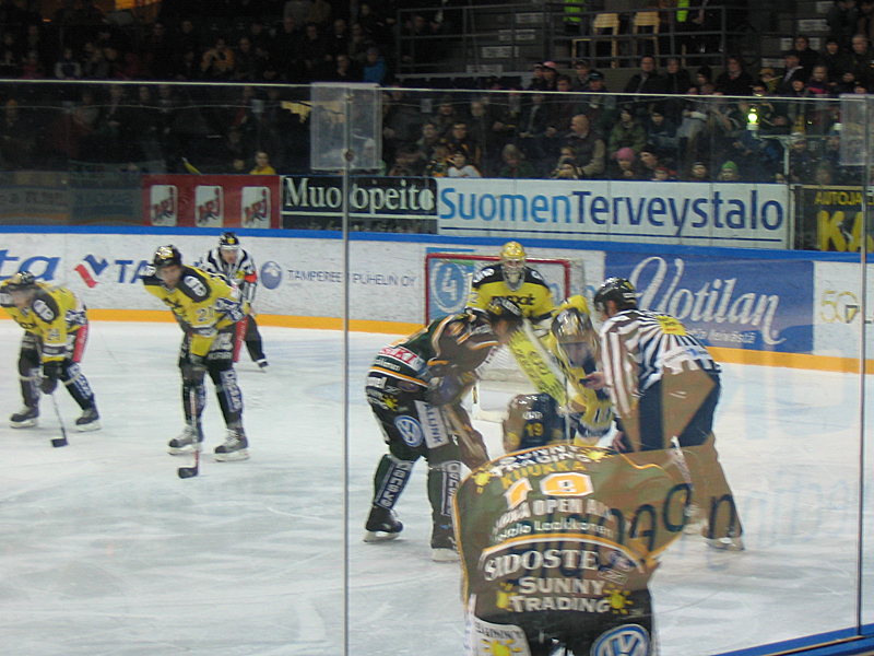 An SM-liiga ice hockey game between Ilves Tampere (green) and SaiPa Lappeenranta (yellow). Players are, from the left: #24 Marko Ojanen, #21 Ossi-Petteri Grönholm, #41 Raimo Helminen, #72 Rob Zepp (goaltender), green #19 Mikko Kuukka, yellow #19 Mikko Hakkarainen.